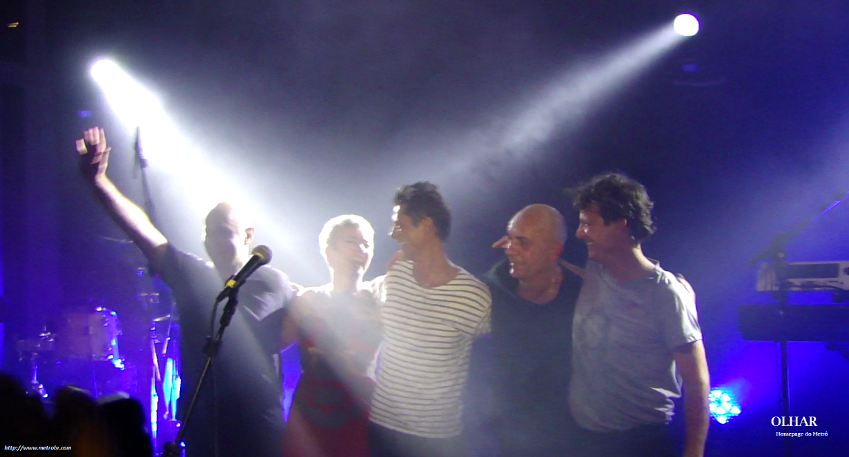 Foto de retorno do Metrô em 2014 - La Luna